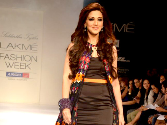 Sonali Bendre at Siddhartha Tytler's LFW Summer/Resort fashion show